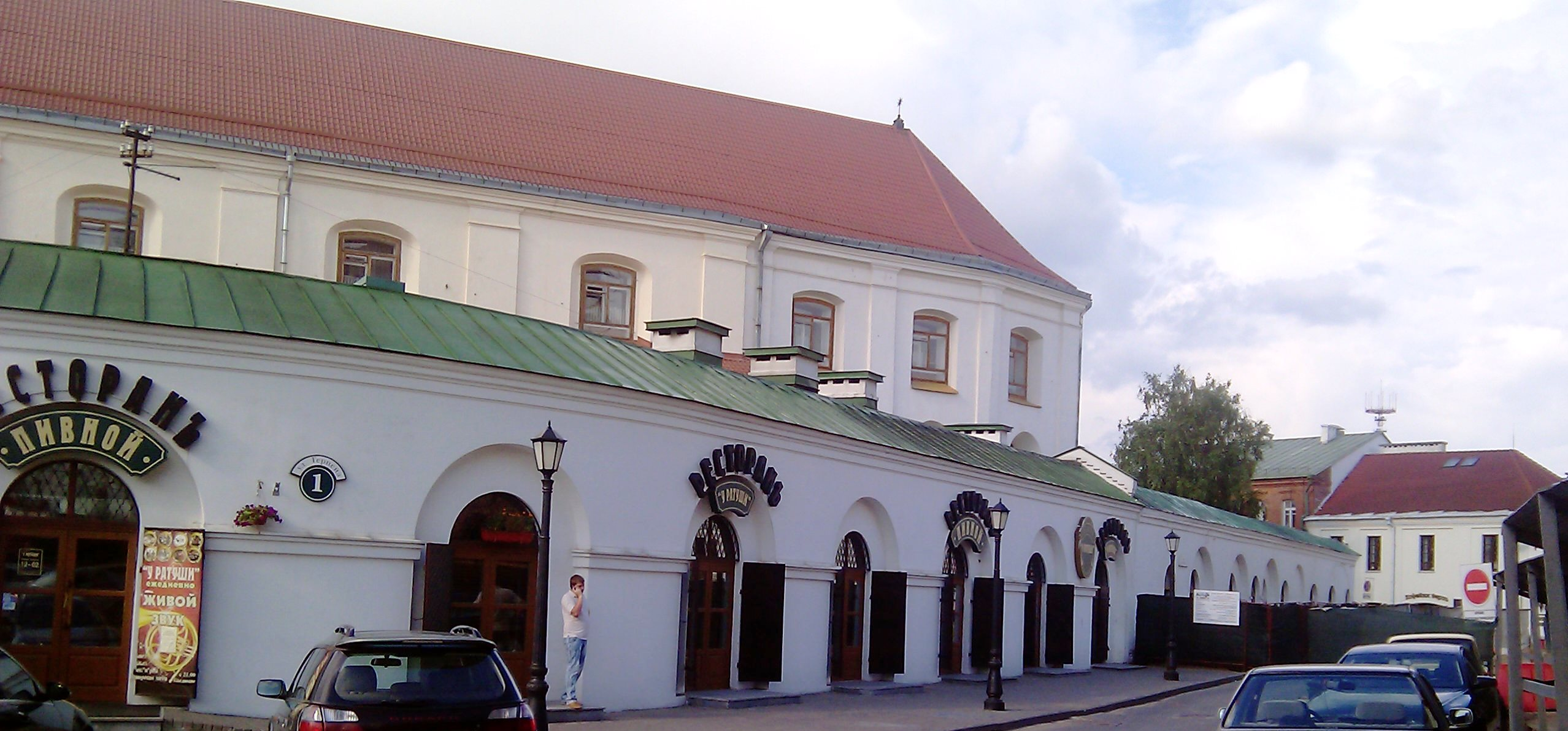 Freedom square in Minsk